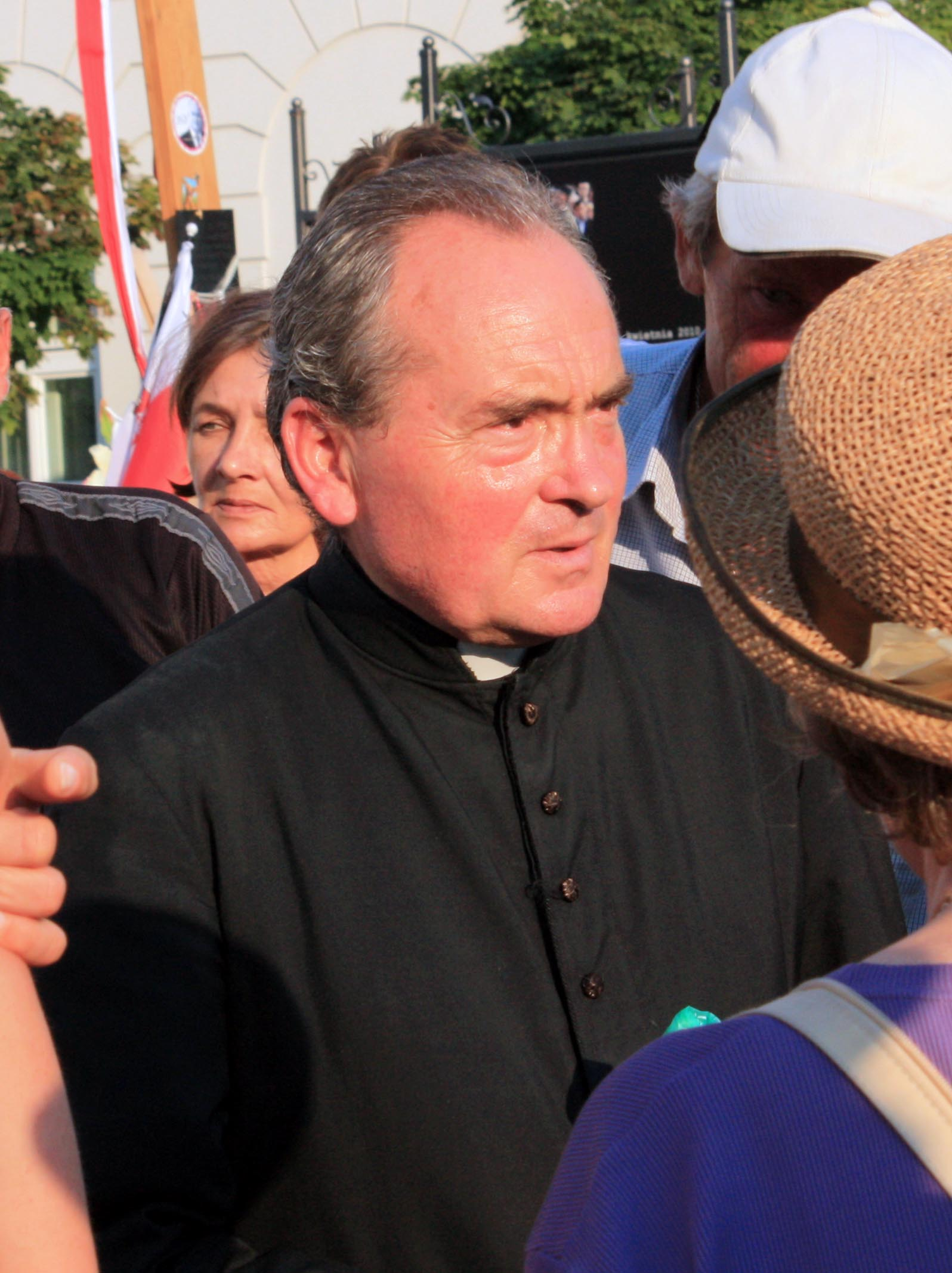 Stanisław Małkowski